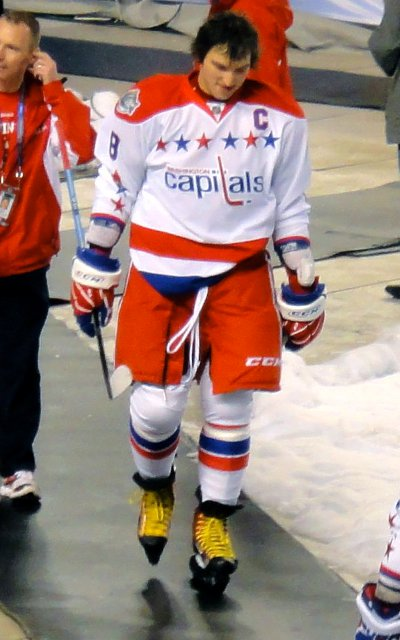 Alexander Ovechkin leaving the ice at the 2011 Winter Classic in Pittsburgh. Photo by Jeska Dzwigalski.